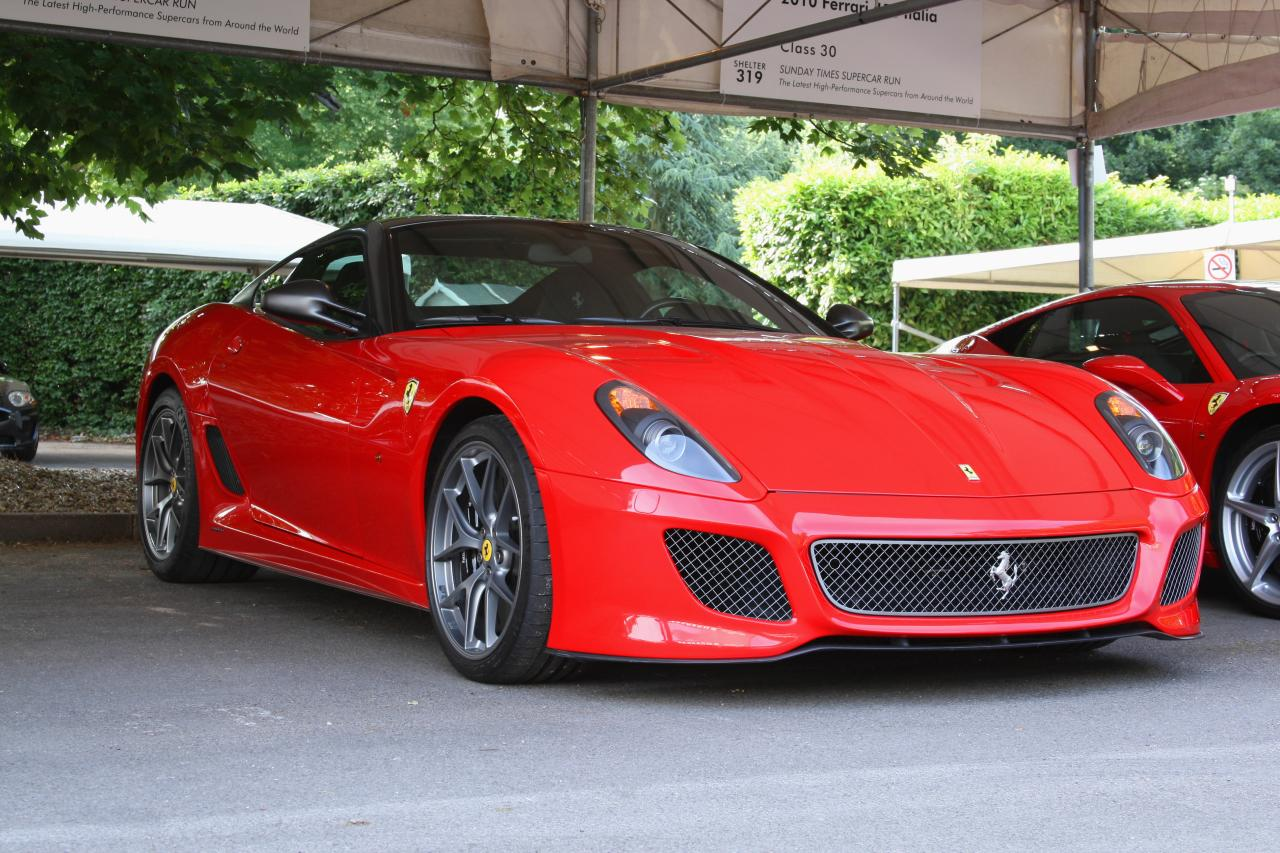 Ferrari 599 GTO goodwood festival of speed 2010